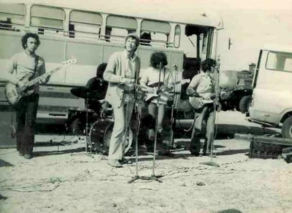 The Israeli Loul group (Arik Einstein singing, Miki Gavrielov playing the guitar) performing before soldiers in during the 1973 war.